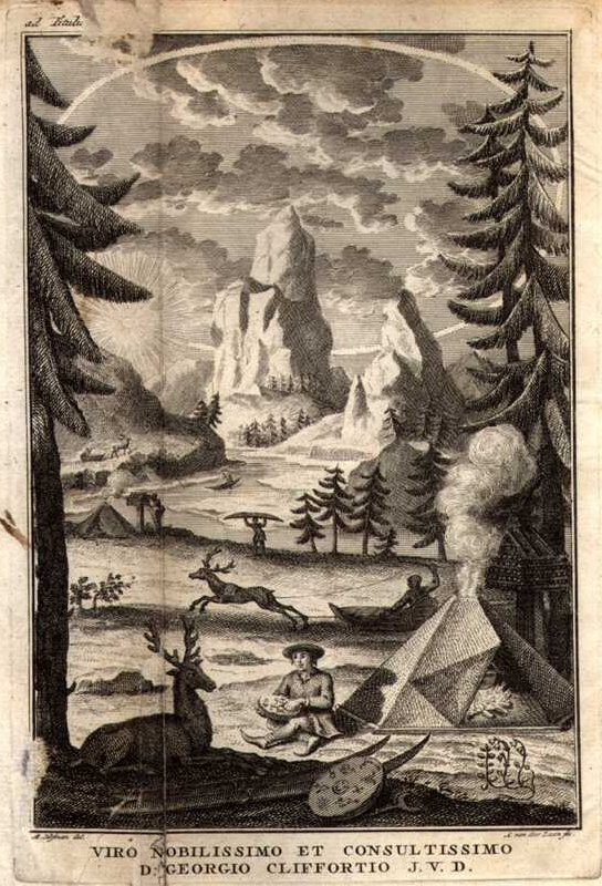 The frontispiece of the book Flora Lapponica (1737) of swedish scientist Carl Linnaeus (1707-1778)